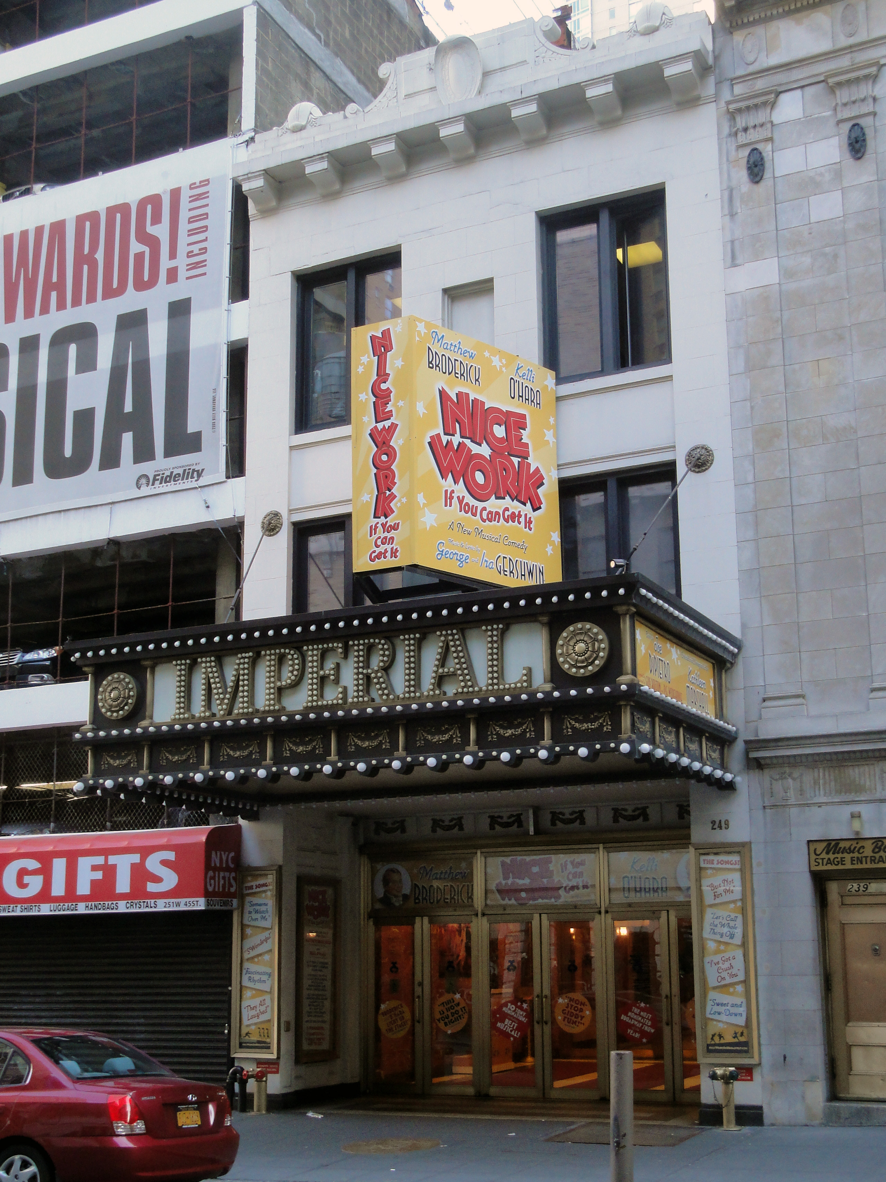 'Nice Work If You Can Get It' at the Imperial Theatre in New York City